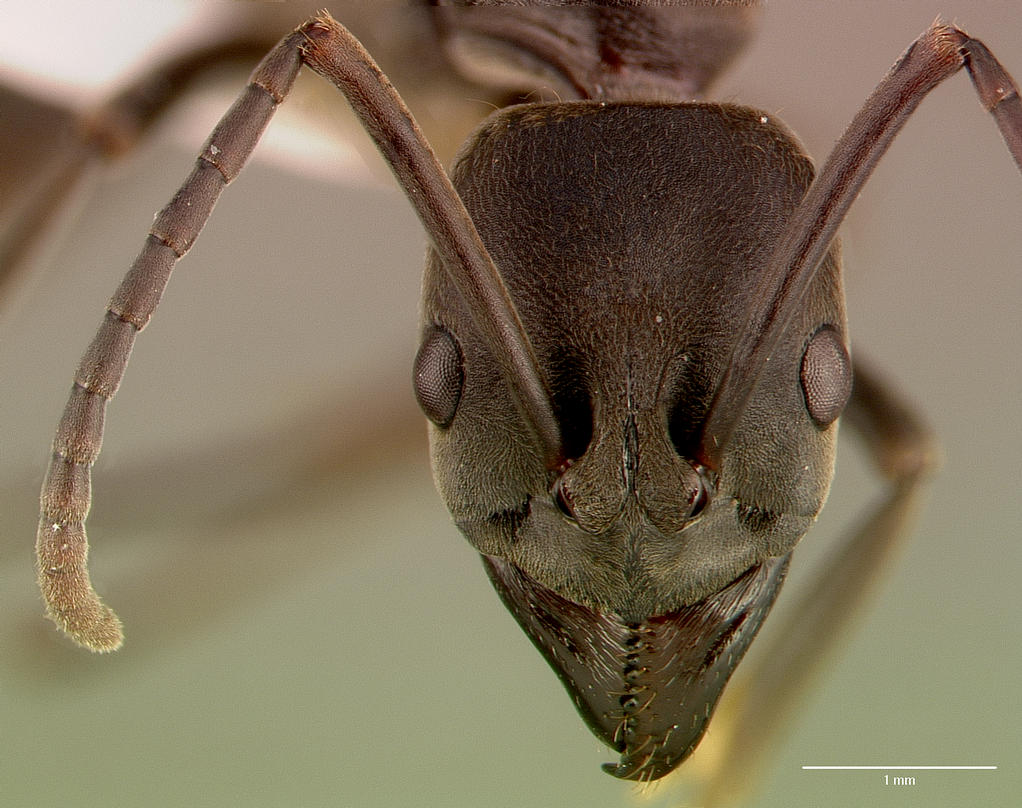 Head view of ant Pachycondyla havilandi specimen sam-hym-c005378a.